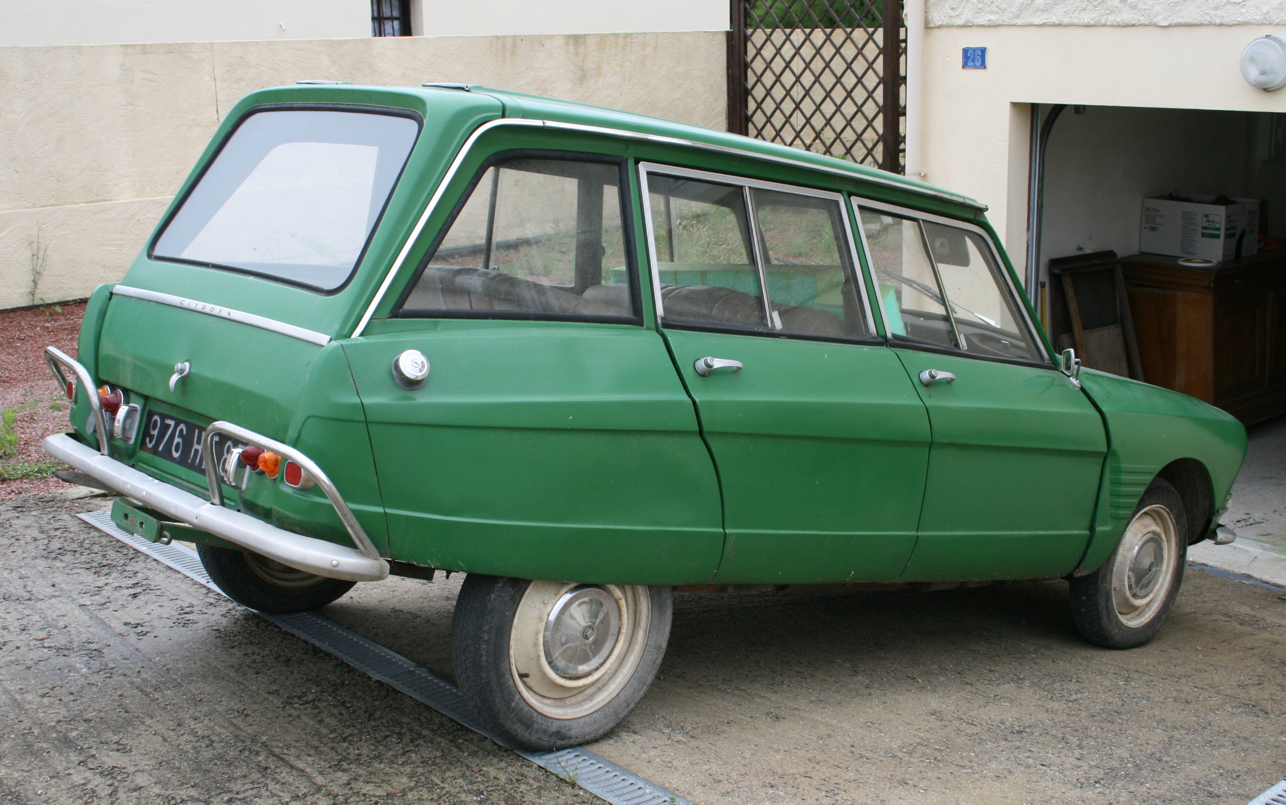 Citroën Ami 6 break 1967 (AMB)